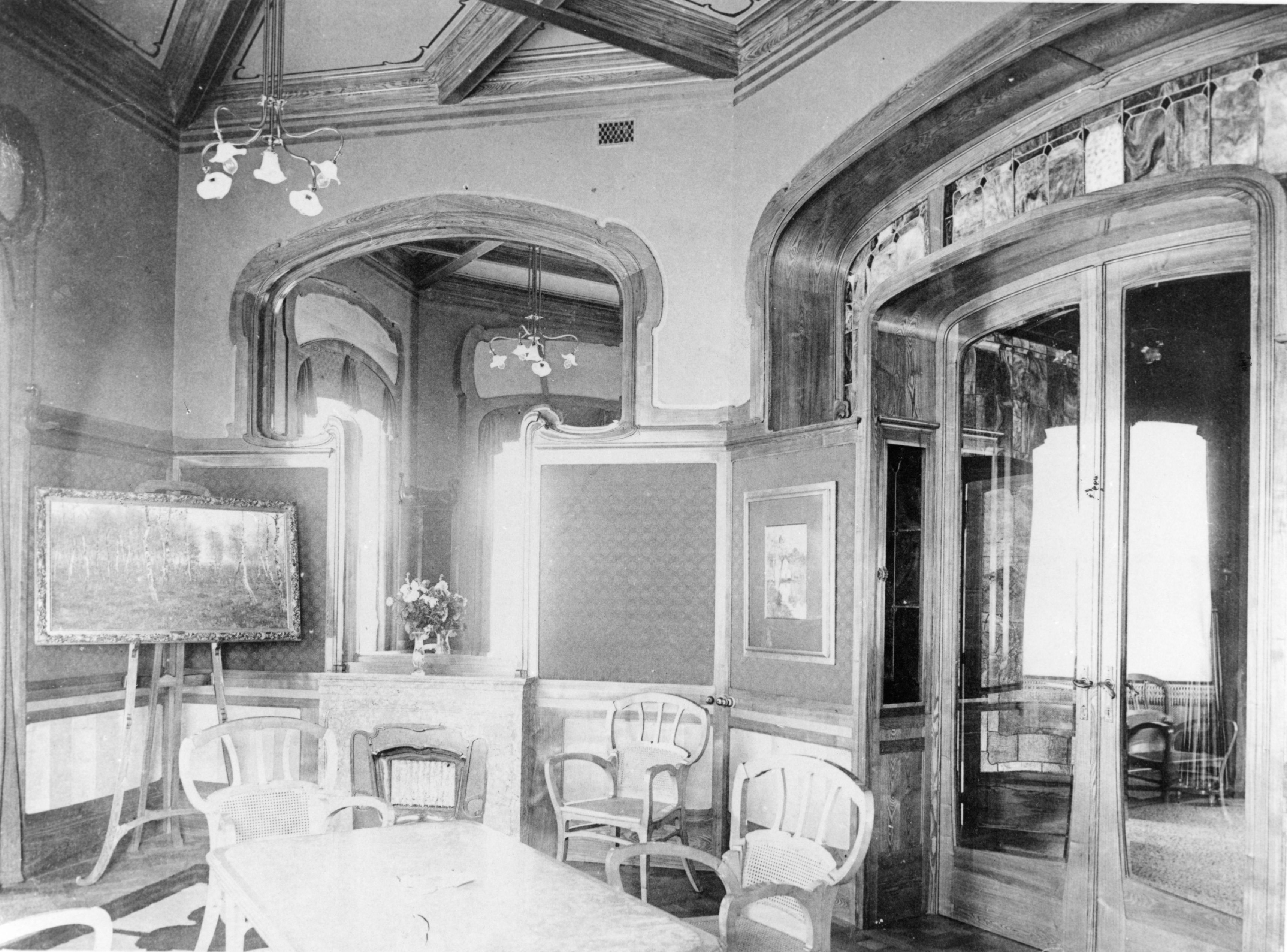 Sitting room in the Hôtel Aubecq (building destroyed, Brussels)